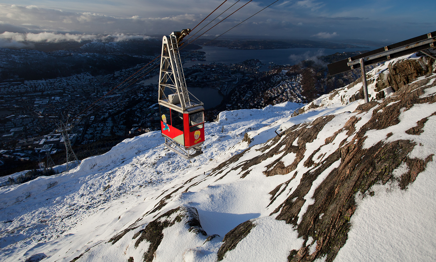 Ulriken (643 metres above sea level) is the highest of the seven mountains (“de syv fjell”) that surround Bergen. Here you can see the cable-car that brings people to the top.